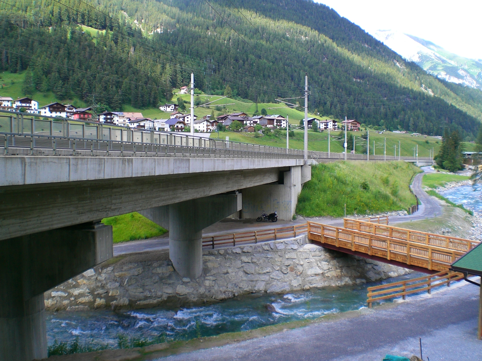 Rosannabridge IV near St. Jakob, Austria, directly at the eastern portal of the Wolfsgrubentunnel